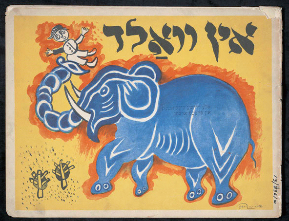 Description: A little boy, Itsi, dreamt that he went to the forest, where he met many different animals: a fox, a tiger, a lion, a wolf, a bear, a monkey etc. To read the entire book, clickhere. Illustrator: Ryback, Issachar, 1897-1935. Author: Kvitko, Leib, 1890-1952 Object Origin: Berlin Dimensions: 15 pages Date: 192-? Persistent URL: Repository: YIVO Institute for Jewish Research, 15 West 16th Street, New York, NY 10011 Call Number: 000003361 Rights Information: No known copyright restrictions; may be subject to third party rights. For more copyright information, click here. See more information about this image and others at CJH Digital Collections. Digital images created by the Gruss Lipper Digital Laboratory at the Center for Jewish History